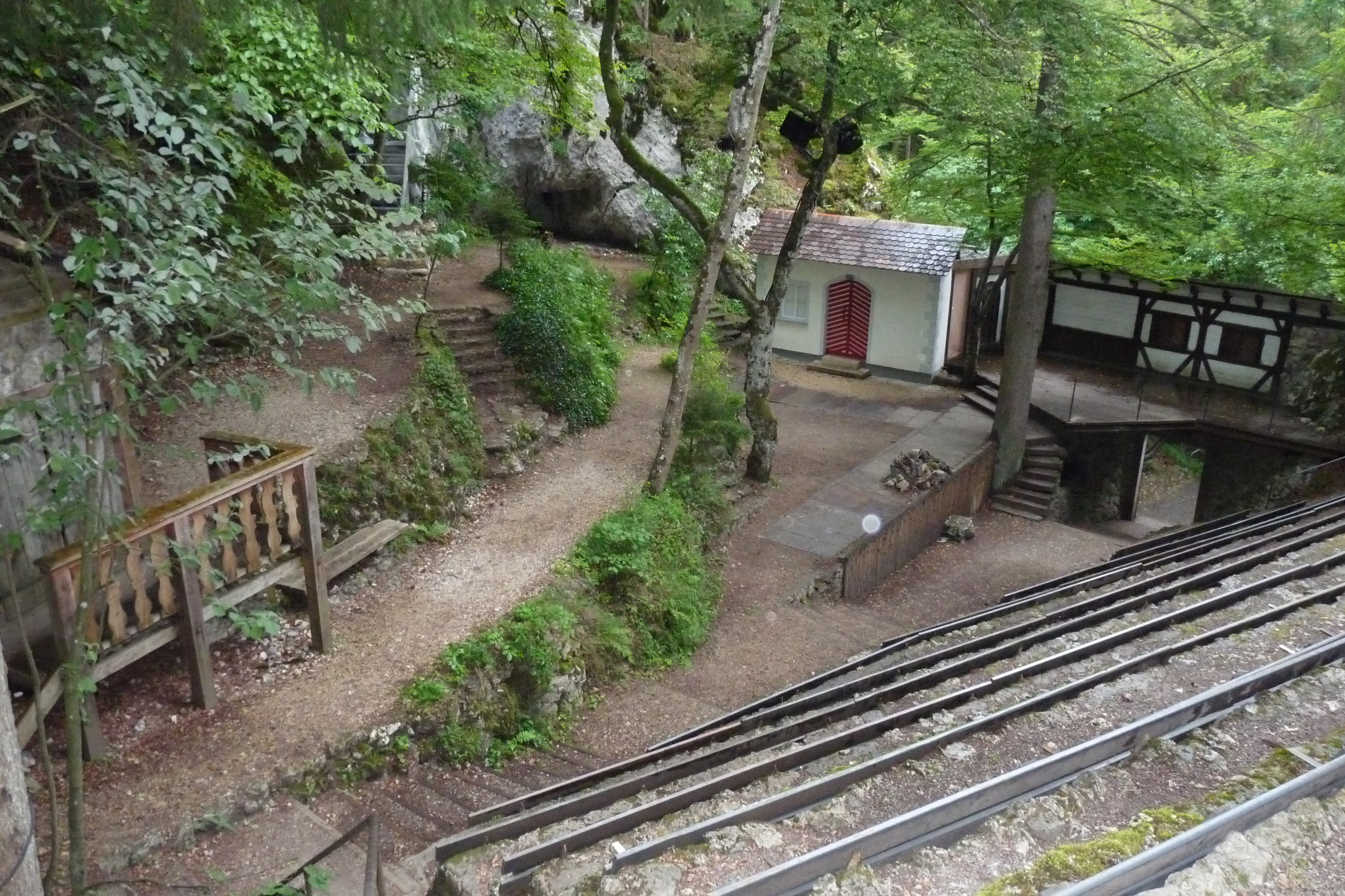 stage of theatre in Fridingen, Germany